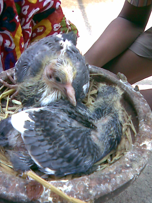 pigeon chicks of 20+ days. Bangladesh.